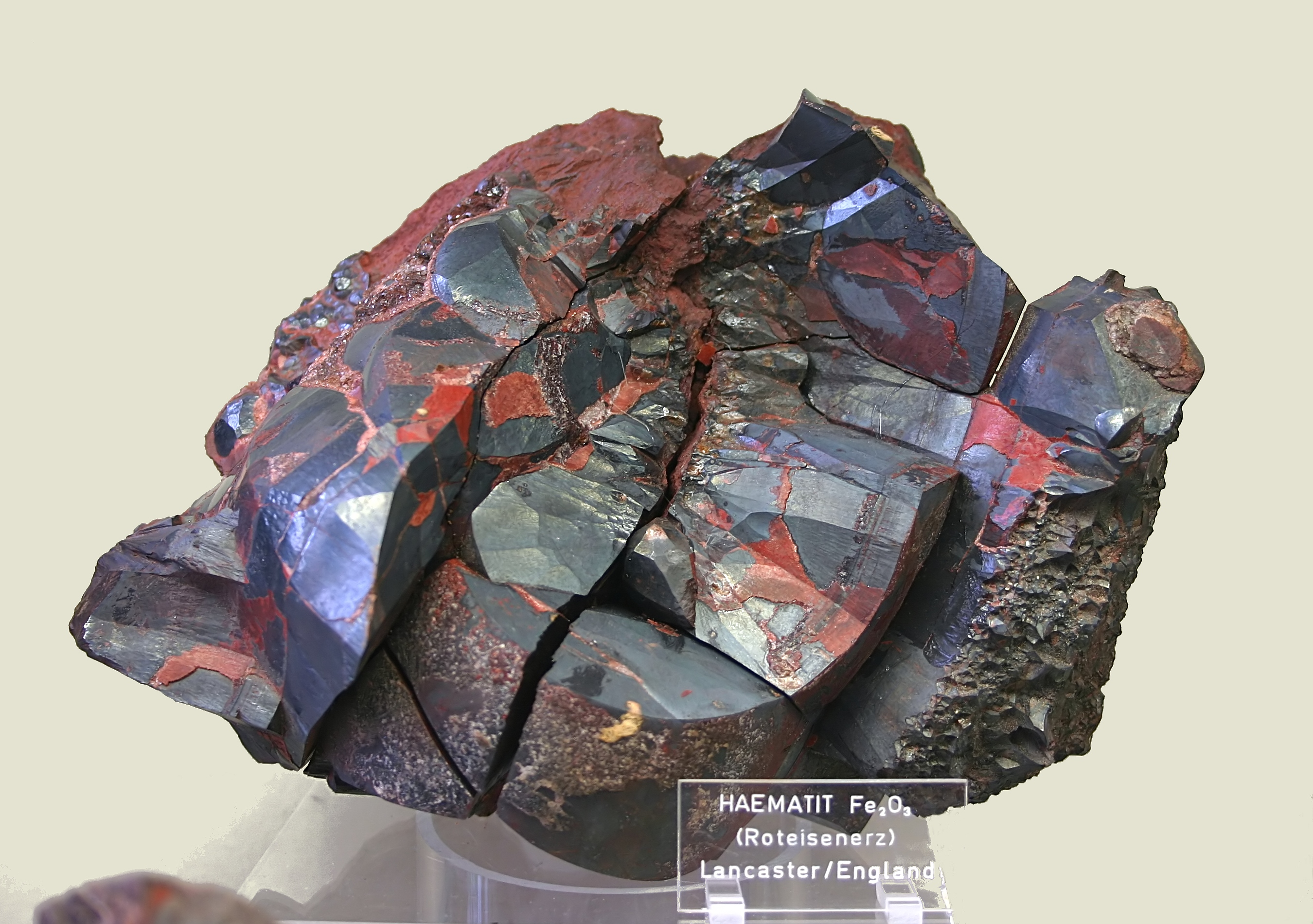 Hematite. Locality: Lancaster, England. Exposed in the Mineralogical Museum, Bonn, Germany